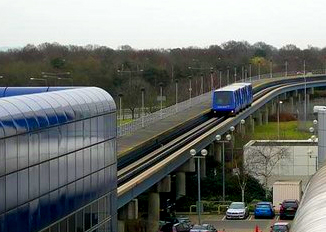 Adtranz C-100 people mover at Gatwick Airport's North Terminal in 2008. The rolling stock has since been replaced, and the North Terminal station rebuilt to form part of a larger terminal ground-side development.